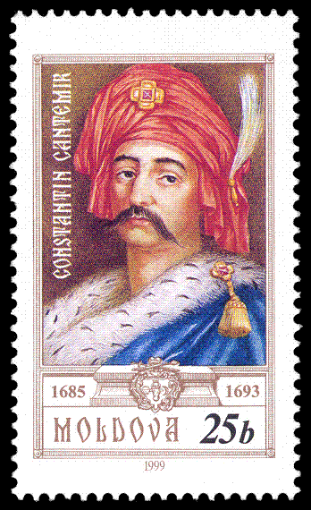 Stamp of Moldova